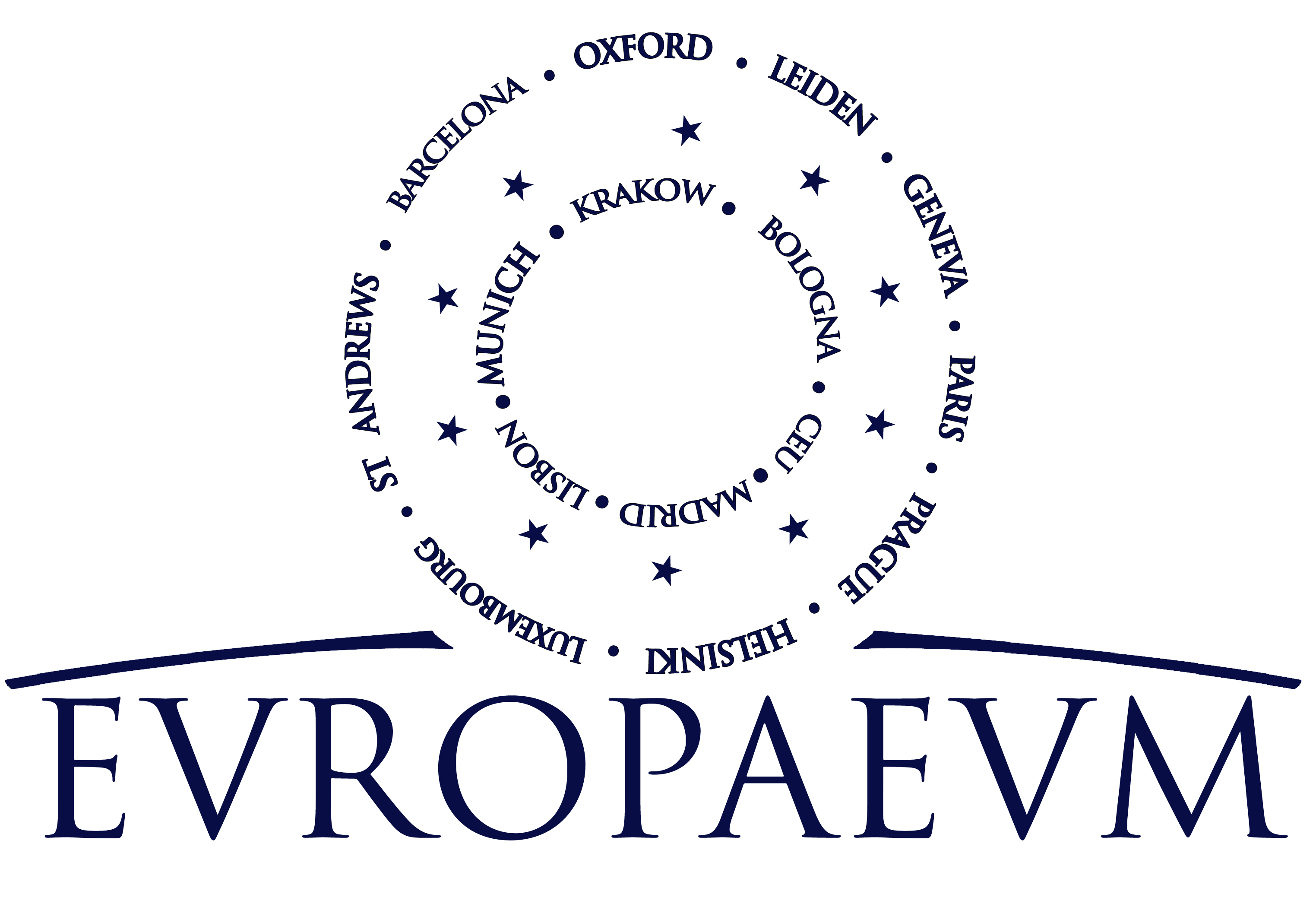 new logo